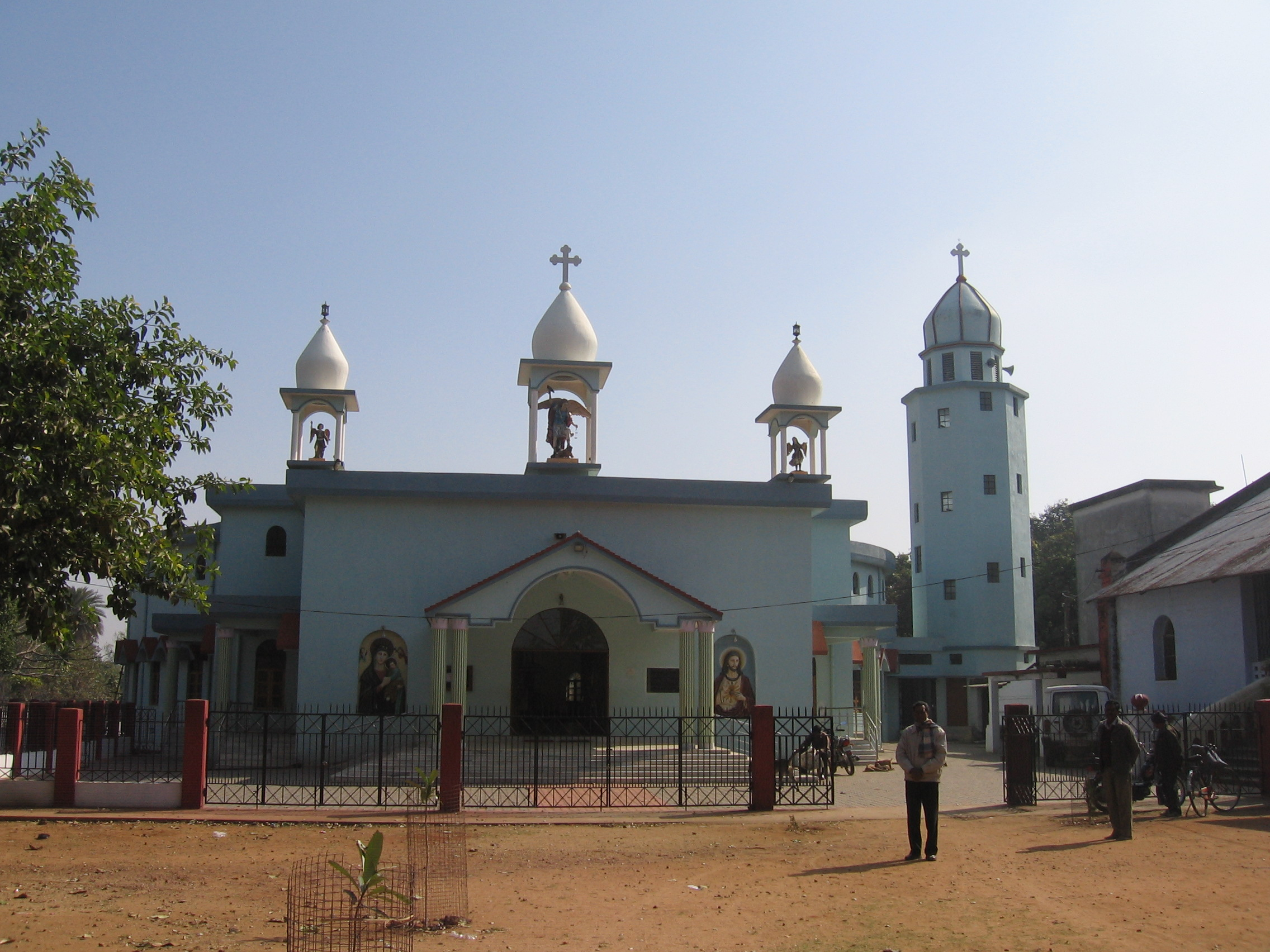 The newly built cathedral of the diocese of Khunti (Jharkhand, India) is dedicated to the archangel Saint Michael (2012).